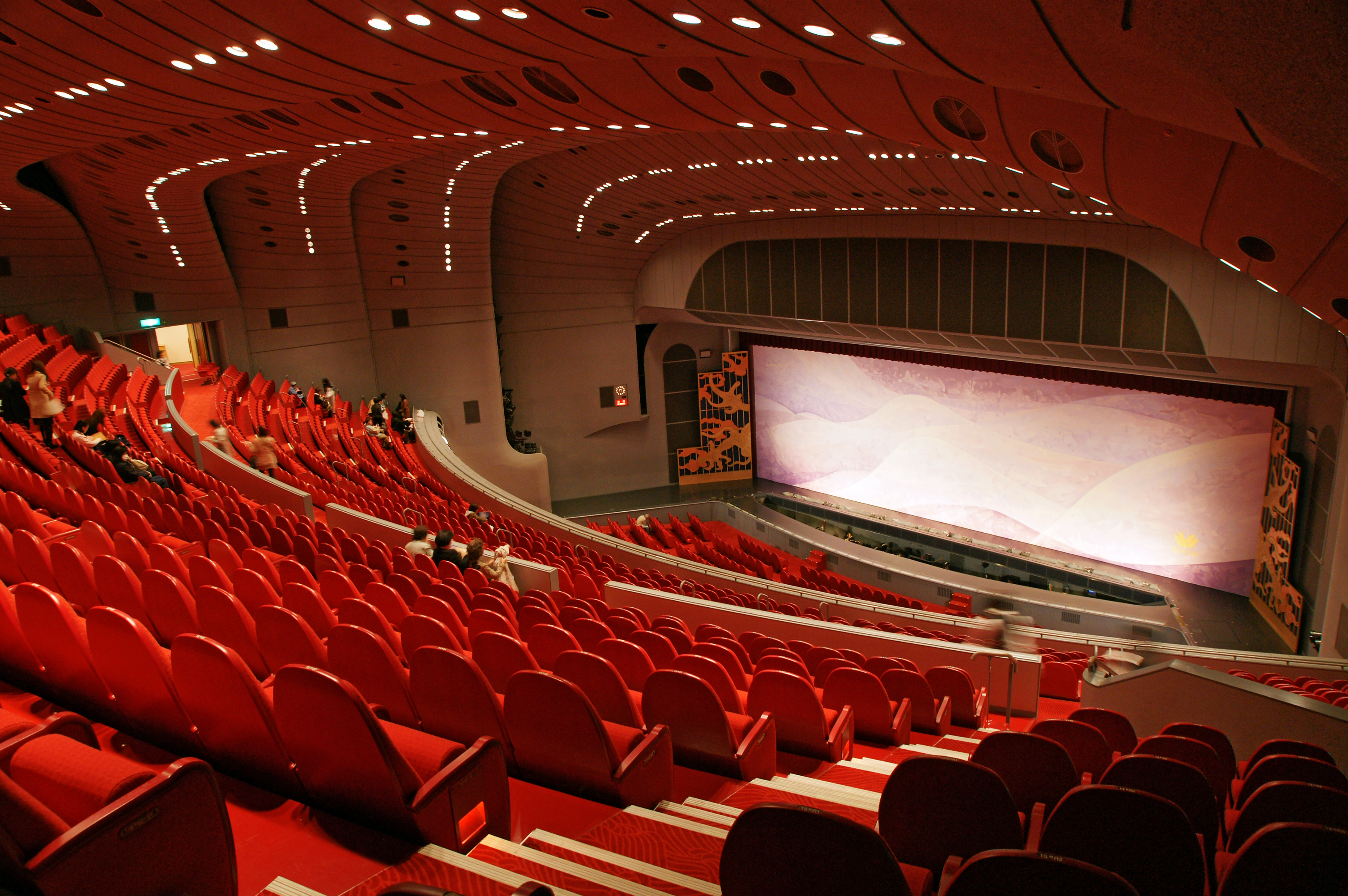 Takarazuka Grand Theater in Takarazuka, Hyogo prefecture, Japan